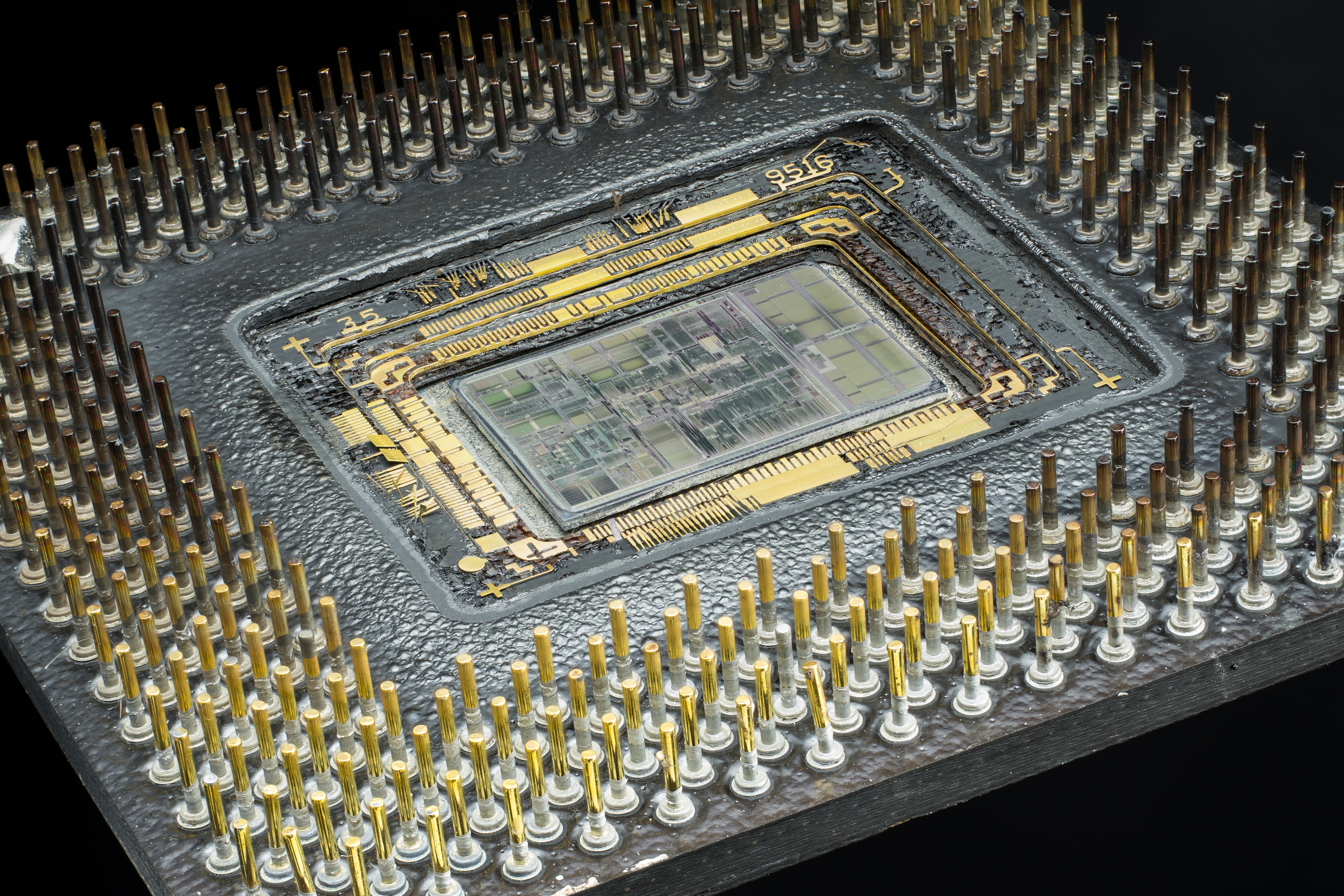 INTEL_Celeron_P6_Mendocino_SL3EH___Stack-DSC06035-DSC06162_-_ZS-DMap